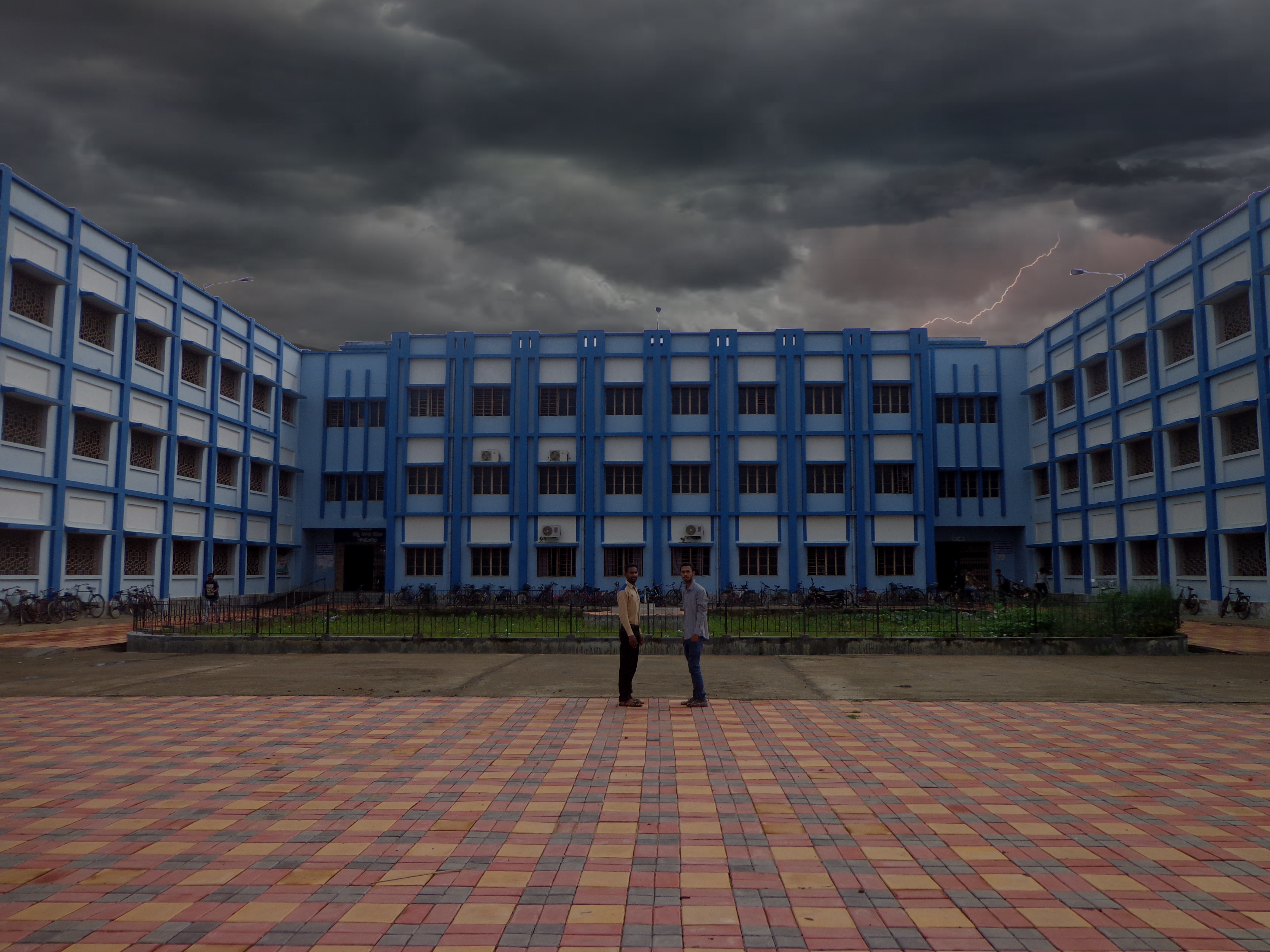 skb cloudy season